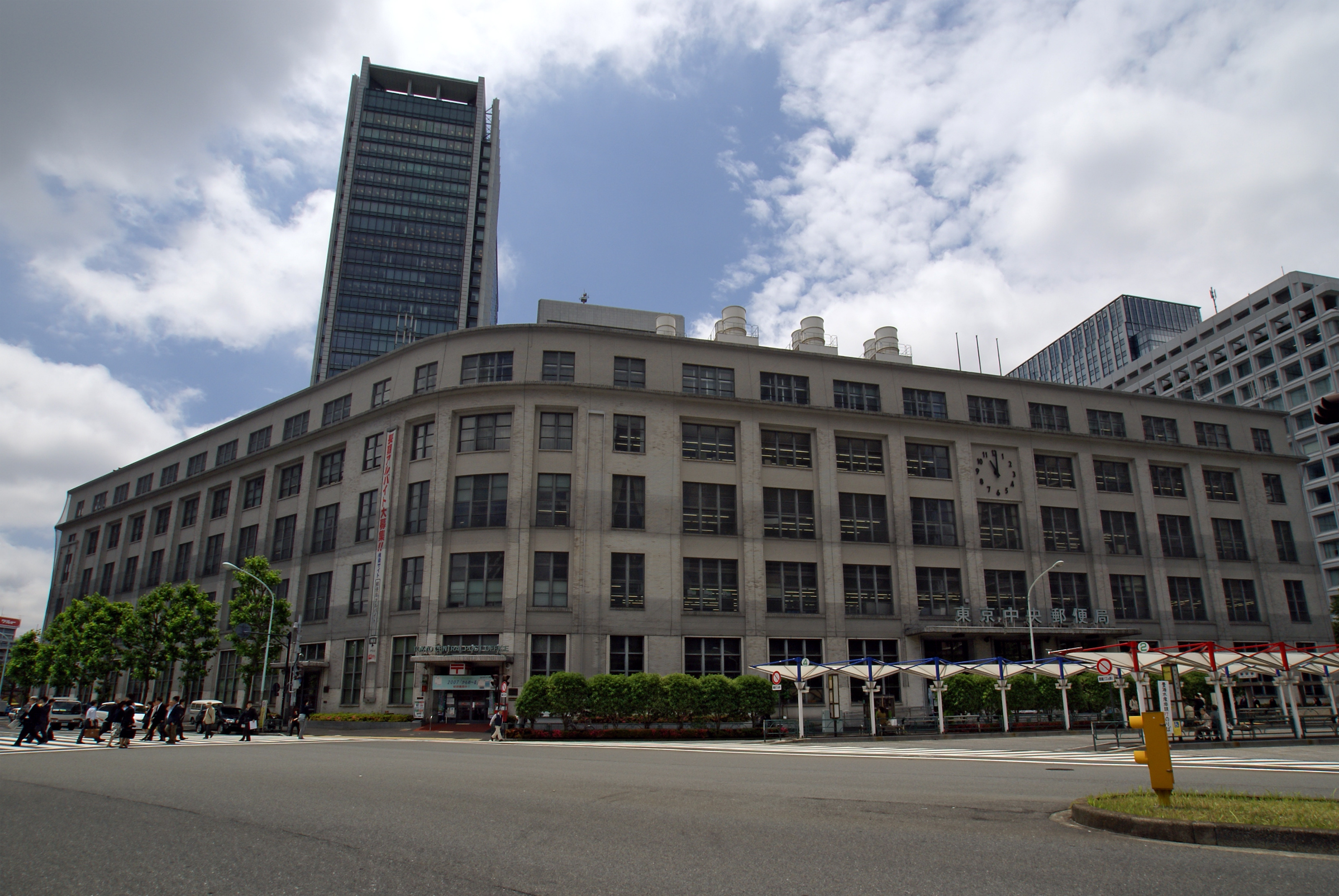 Tokyo Chuo Post Office in Chiyoda-ku, Tokyo, Japan